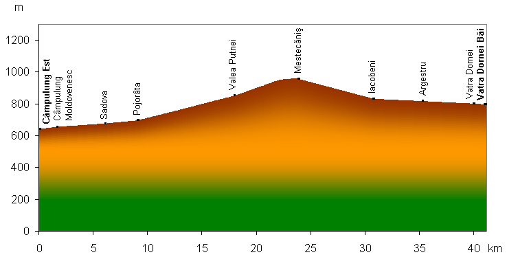 elevation profile of the railway track Campulung Moldovenesc-Vatra Dornei